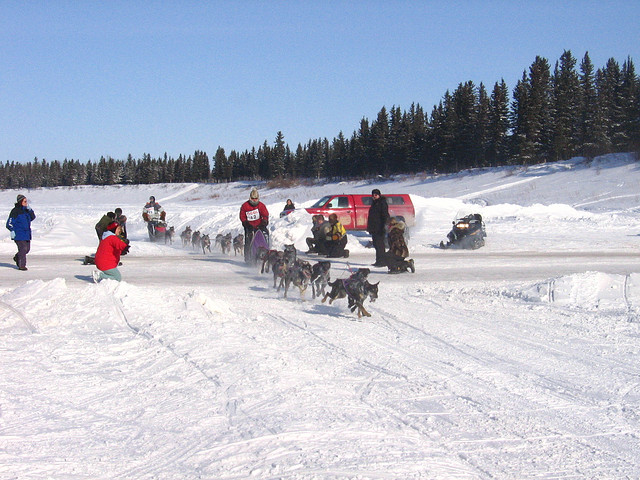 Dog sled racing at the Hay River Winter Carnival